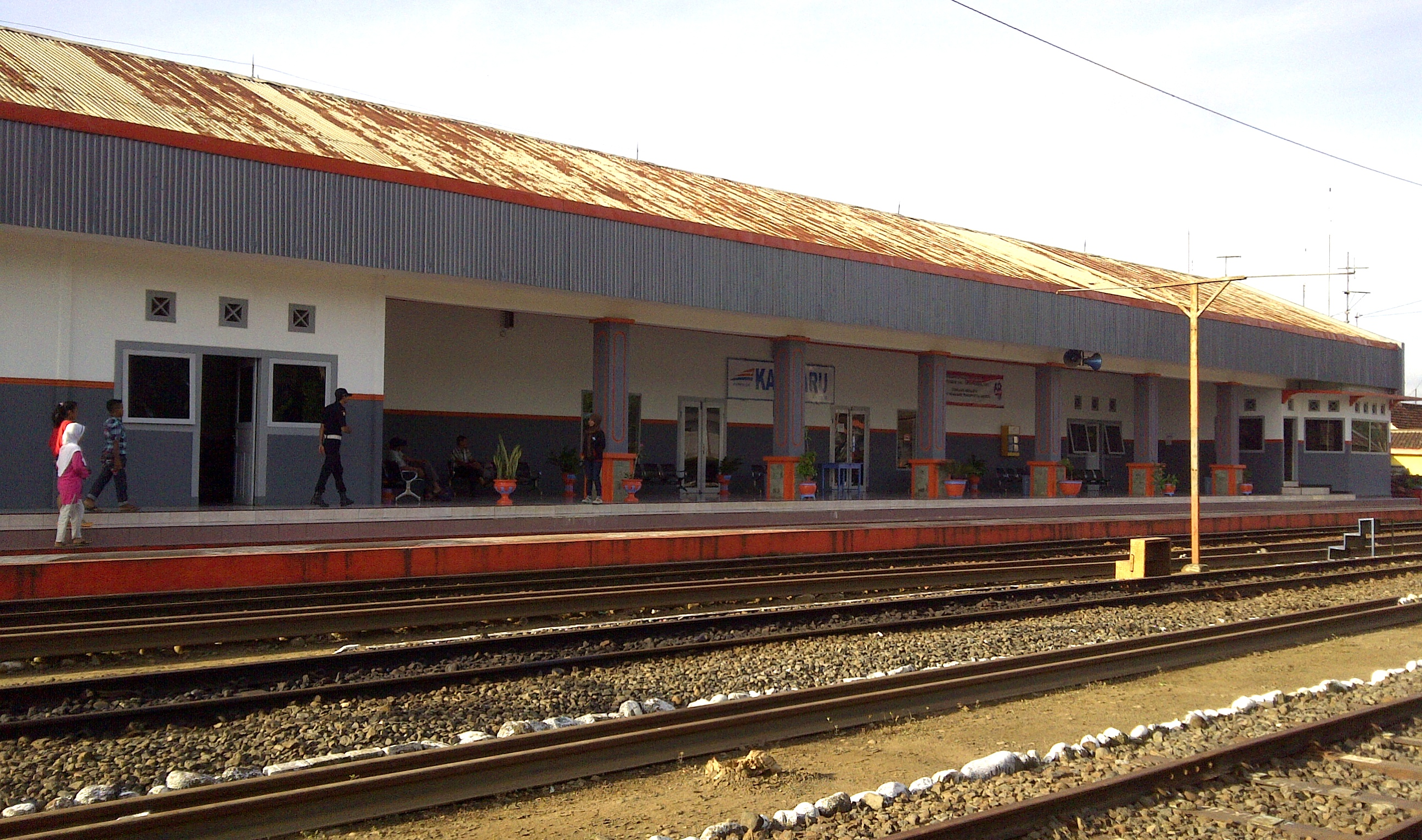 The railway station of Kalibaru Wetan, East Java, Indonesia